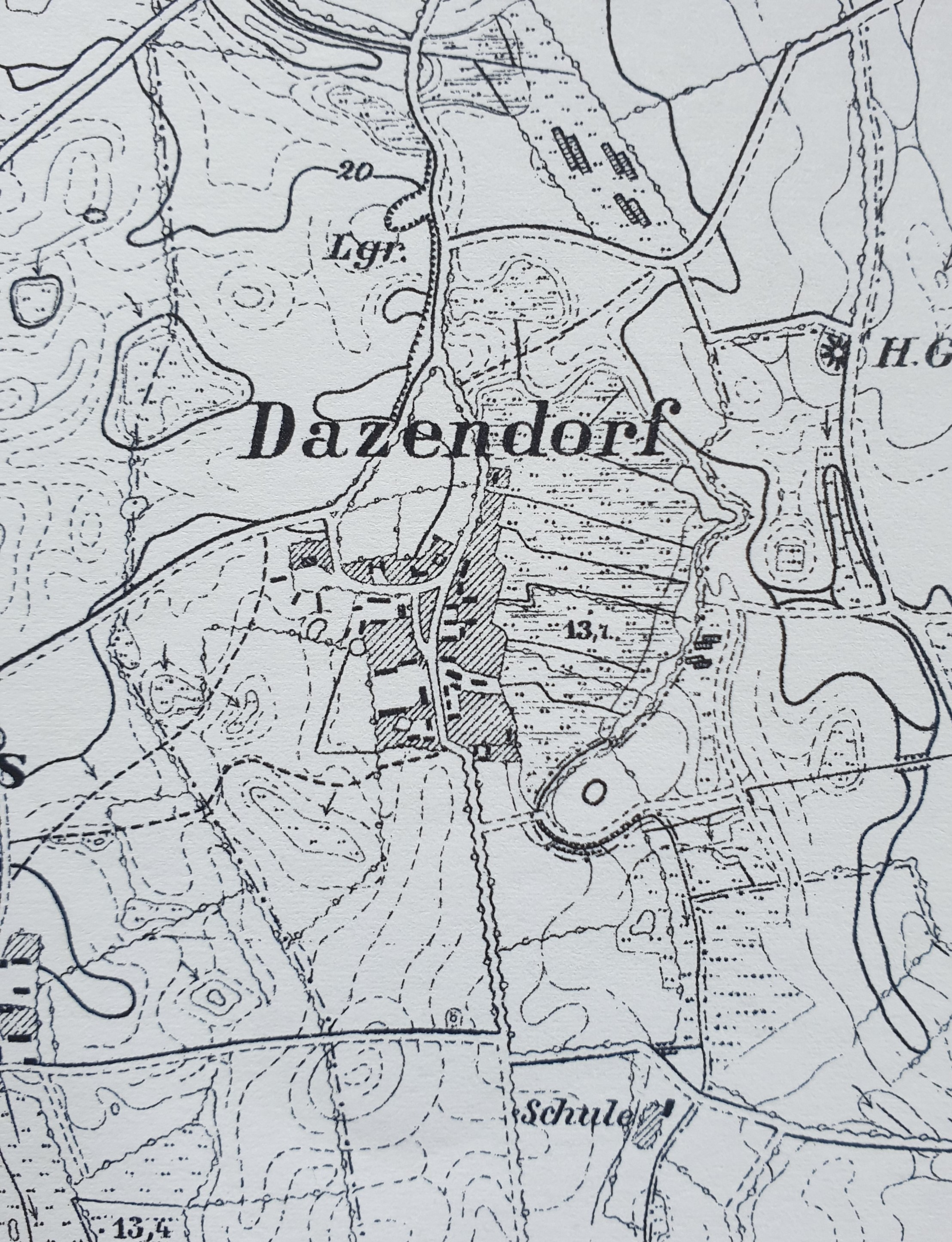 Uploaded a work by Königl.Preuss.Landes-Aufnahme 1877. Herausgegeben 1879 from Landesamt für Vermessung und Geoinformation Schleswig-Holstein